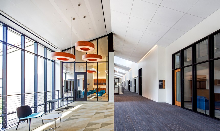 The New Pomona College Millikan Hall, which opened in 2015. Construction by MATT Construction.